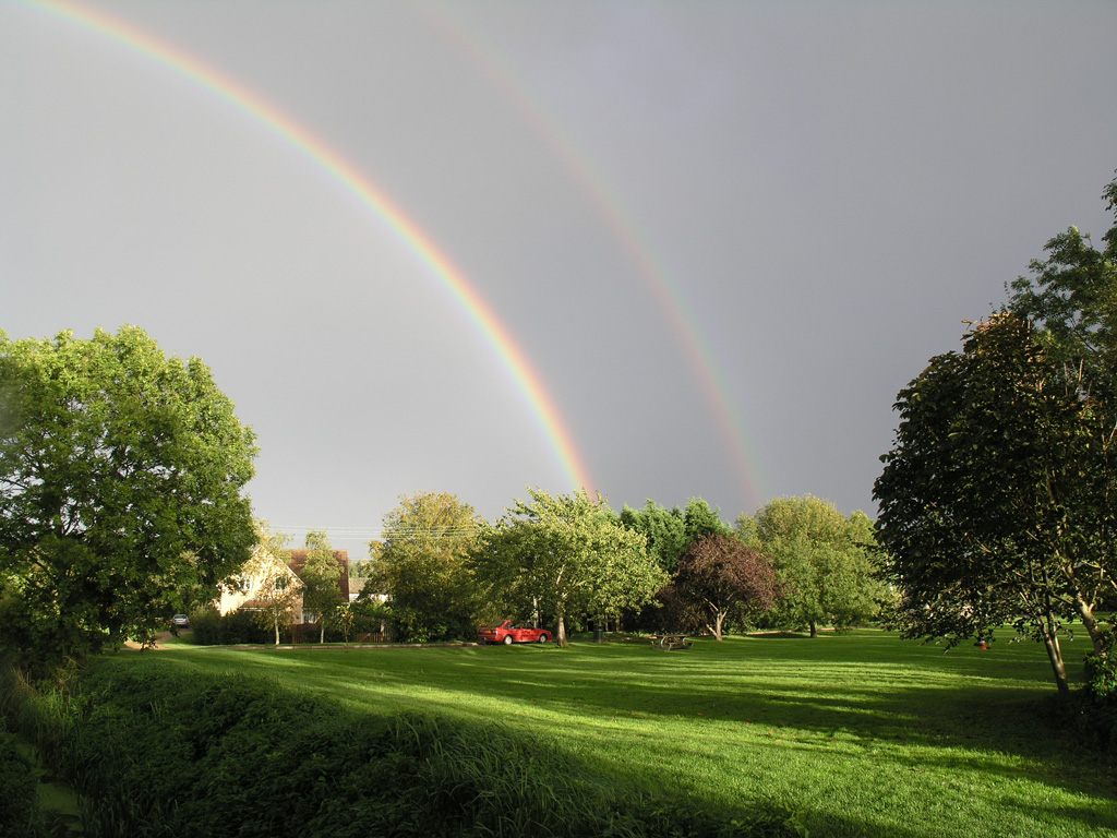 This is a genuine photograph of a double rainbow in Cambridgeshire. Note that the second fainter rainbow has the colour sequence opposite to the first.